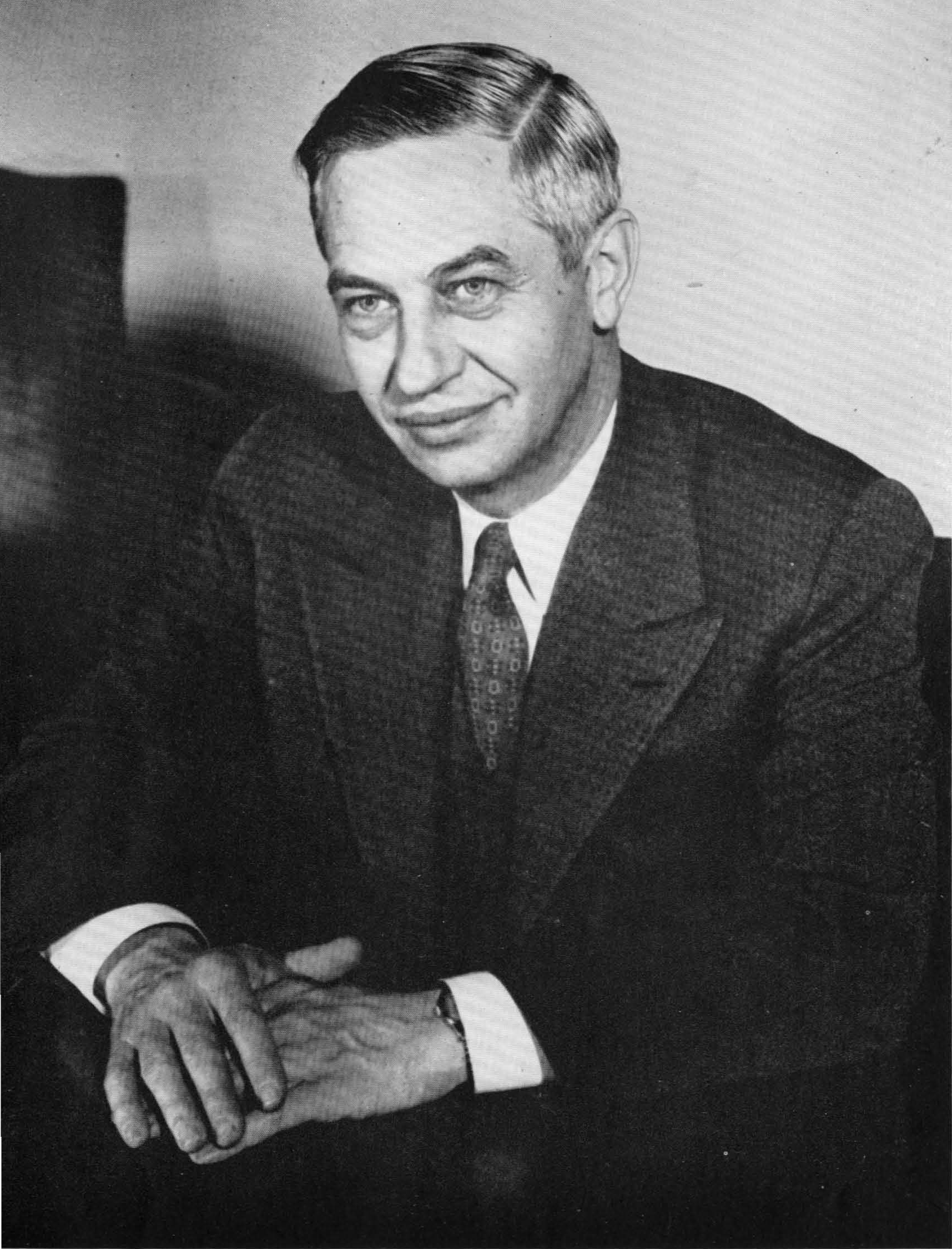 California Institute of Technology President Lee Alvin DuBridge